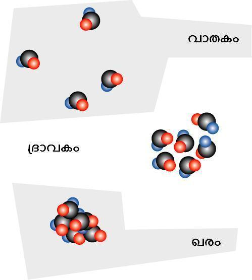 Solid Liquid and Gas. Text in Malayalam